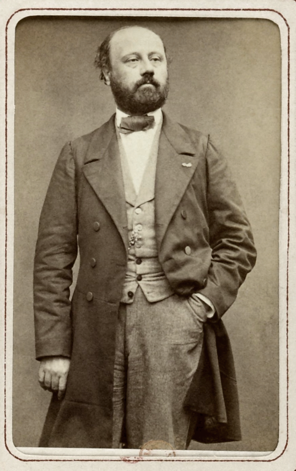 François Bazin (1816-1878), french composer and pedagogue.